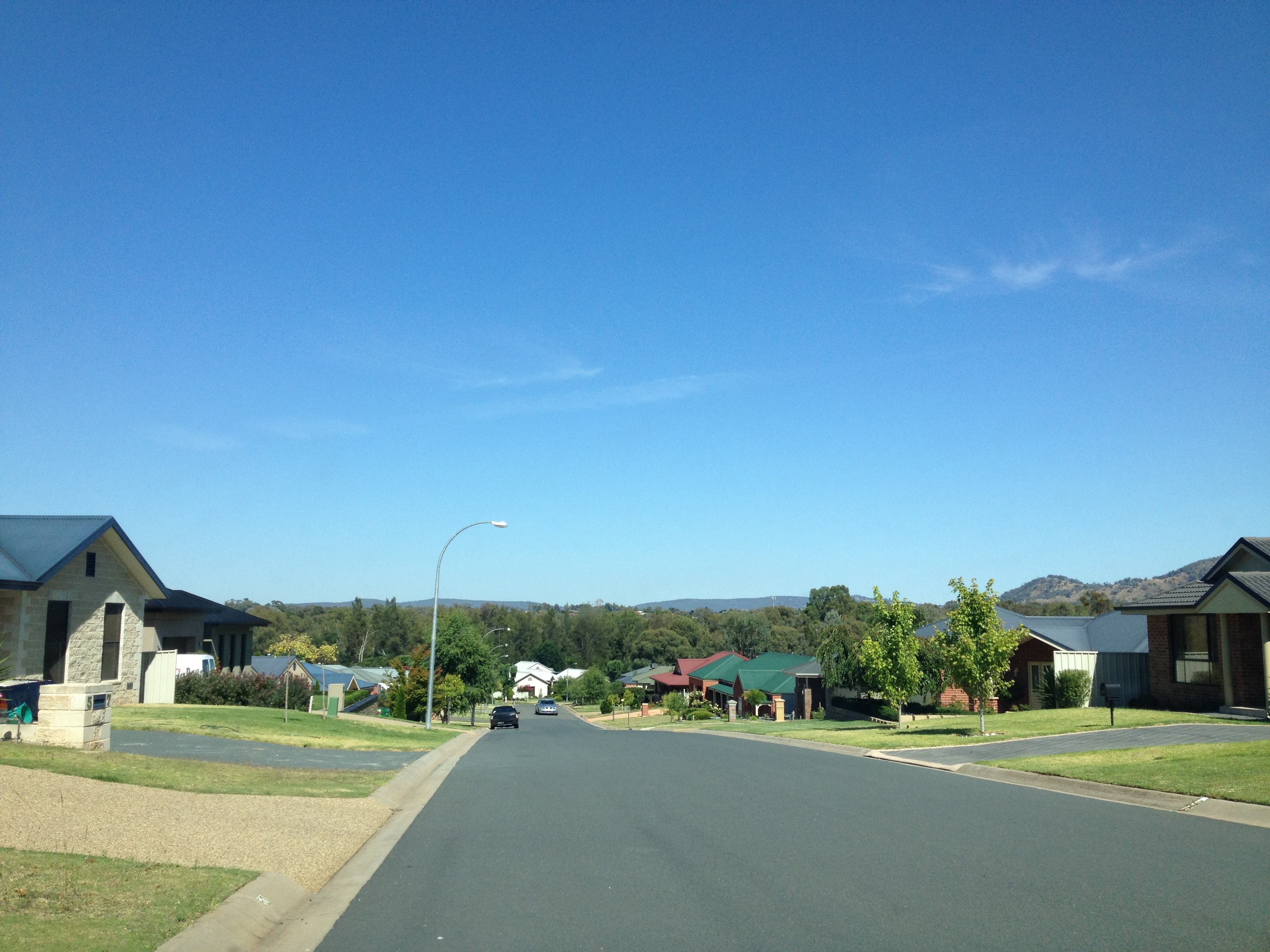 Suburban Thurgoona